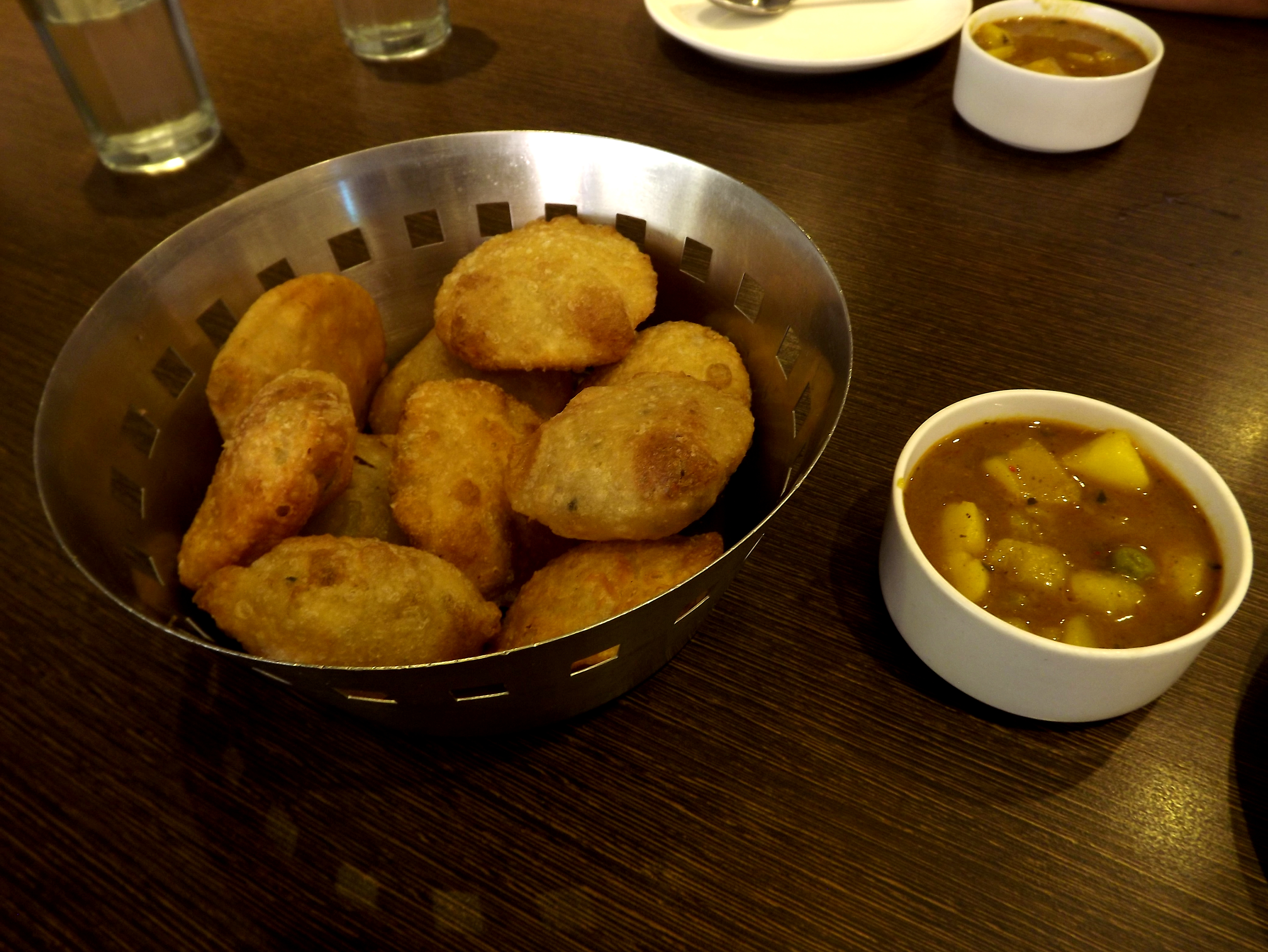 Club Kachori at Gangaur restaurant, Calcutta (Kolkata)